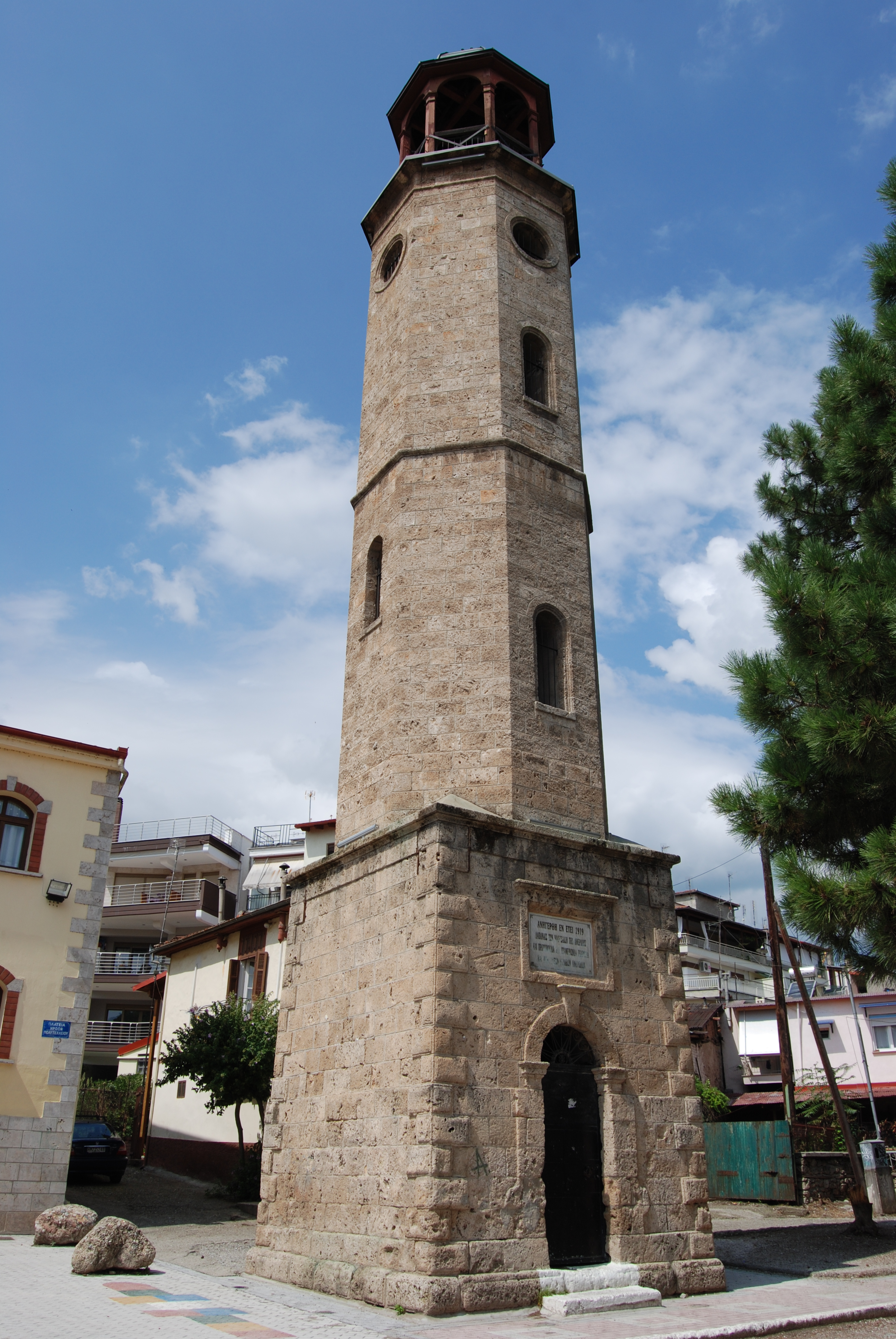 Buildings in Naousa